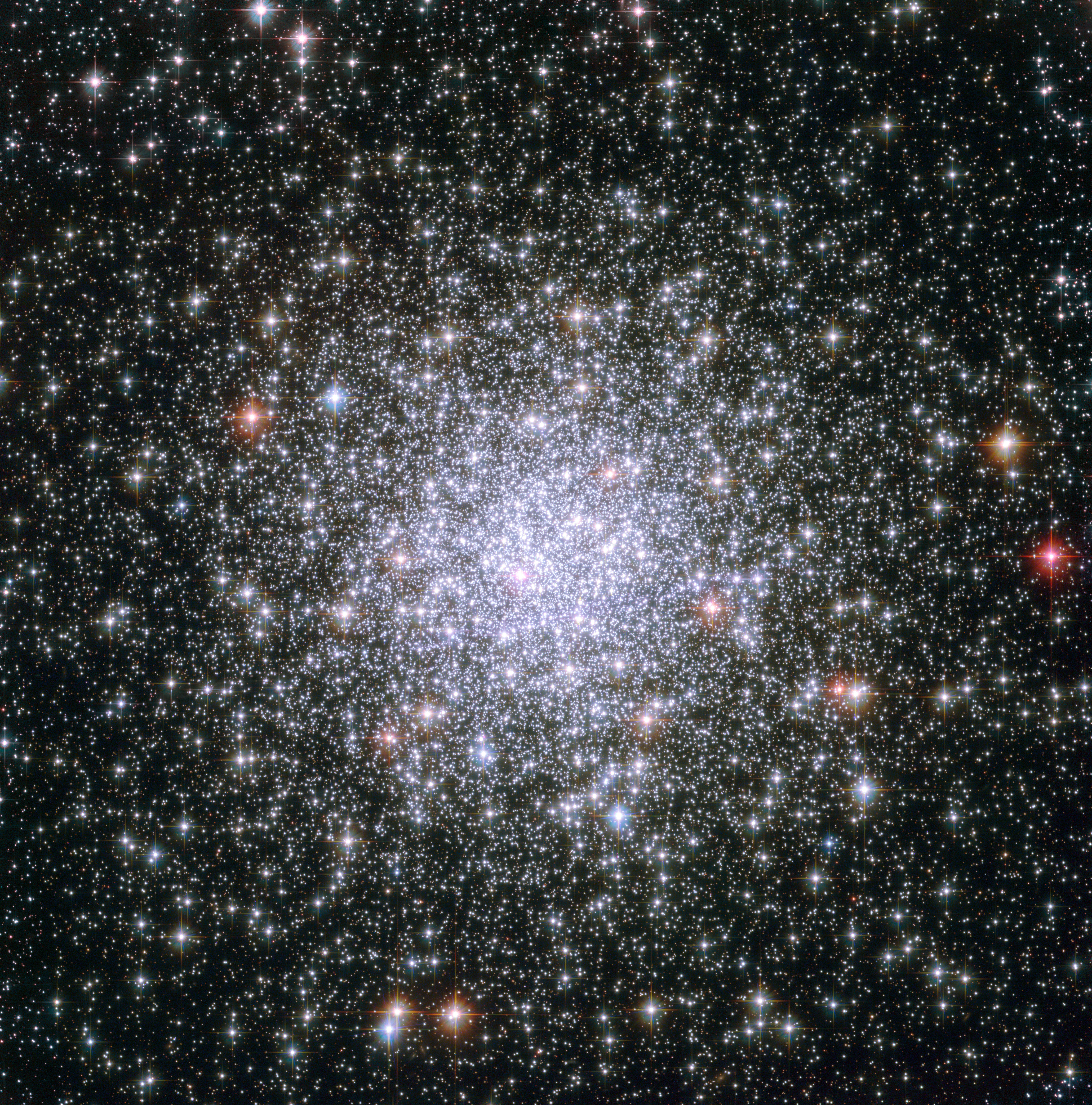 This dazzling image shows the globular cluster Messier 69, or M 69 for short, as viewed through the NASA/ESA Hubble Space Telescope. Globular clusters are dense collections of old stars. In this picture, foreground stars look big and golden when set against the backdrop of the thousands of white, silvery stars that make up M 69. Another aspect of M 69 lends itself to the bejewelled metaphor: As globular clusters go, M 69 is one of the most metal-rich on record. In astronomy, the term “metal” has a specialised meaning: it refers to any element heavier than the two most common elements in our Universe, hydrogen and helium. The nuclear fusion that powers stars created all of the metallic elements in nature, from the calcium in our bones to the carbon in diamonds. Successive generations of stars have built up the metallic abundances we see today. Because the stars in globular clusters are ancient, their metallic abundances are much lower than more recently formed stars, such as the Sun. Studying the makeup of stars in globular clusters like M 69 has helped astronomers trace back the evolution of the cosmos. M 69 is located 29 700 light-years away in the constellation Sagittarius (the Archer). The famed French comet hunter Charles Messier added M 69 to his catalogue in 1780. It is also known as NGC 6637. The image is a combination of exposures taken in visible and near-infrared light by Hubble’s Advanced Camera for Surveys, and covers a field of view of approximately 3.4 by 3.4 arcminutes.